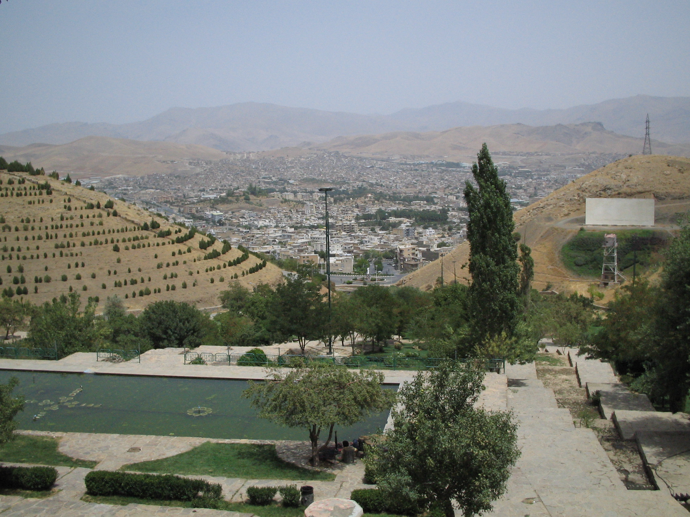 Viem of Sanandaj (Sinneh), Iran